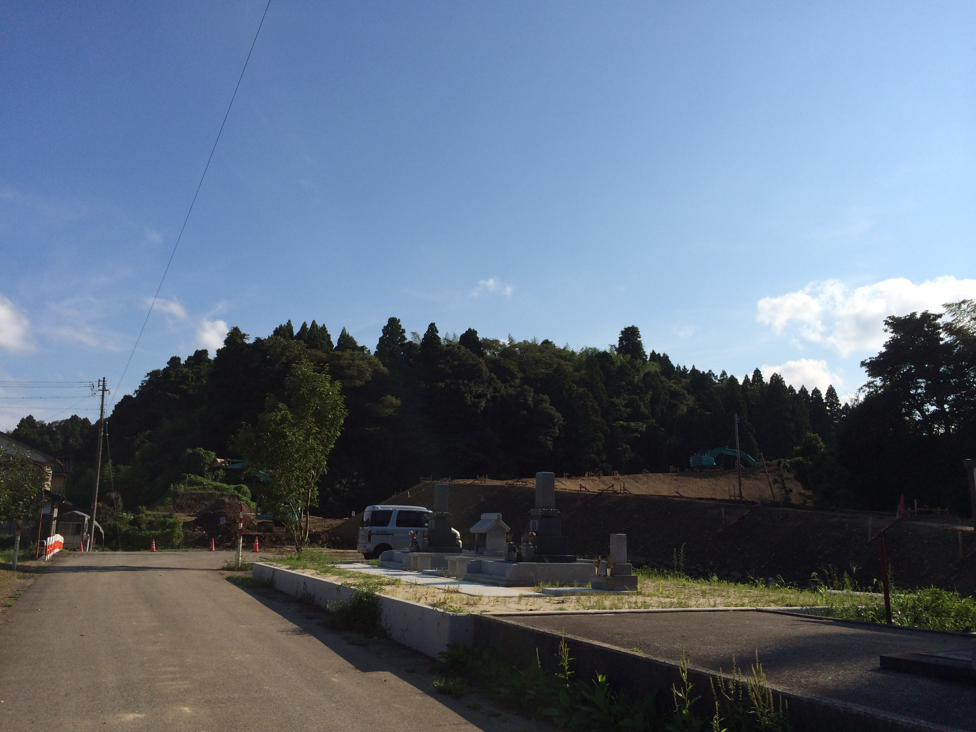 The site of the former Ushima Station on the Noto Railway Noto Line in IShikawa Prefecture, Japan